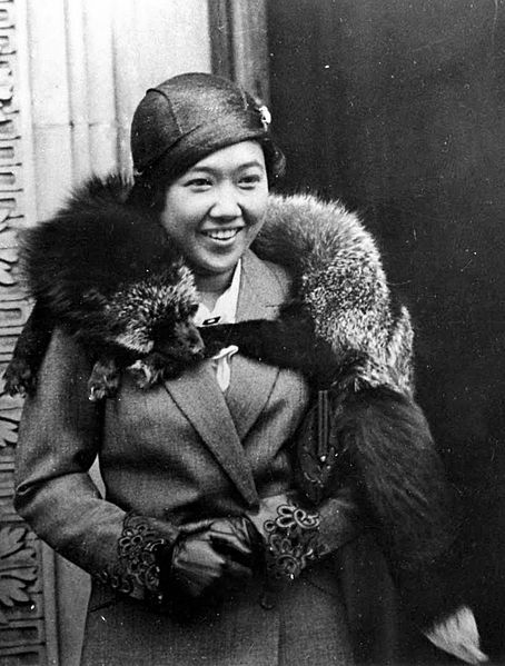 Queen Rambhai Barni of Siam during exile in London.